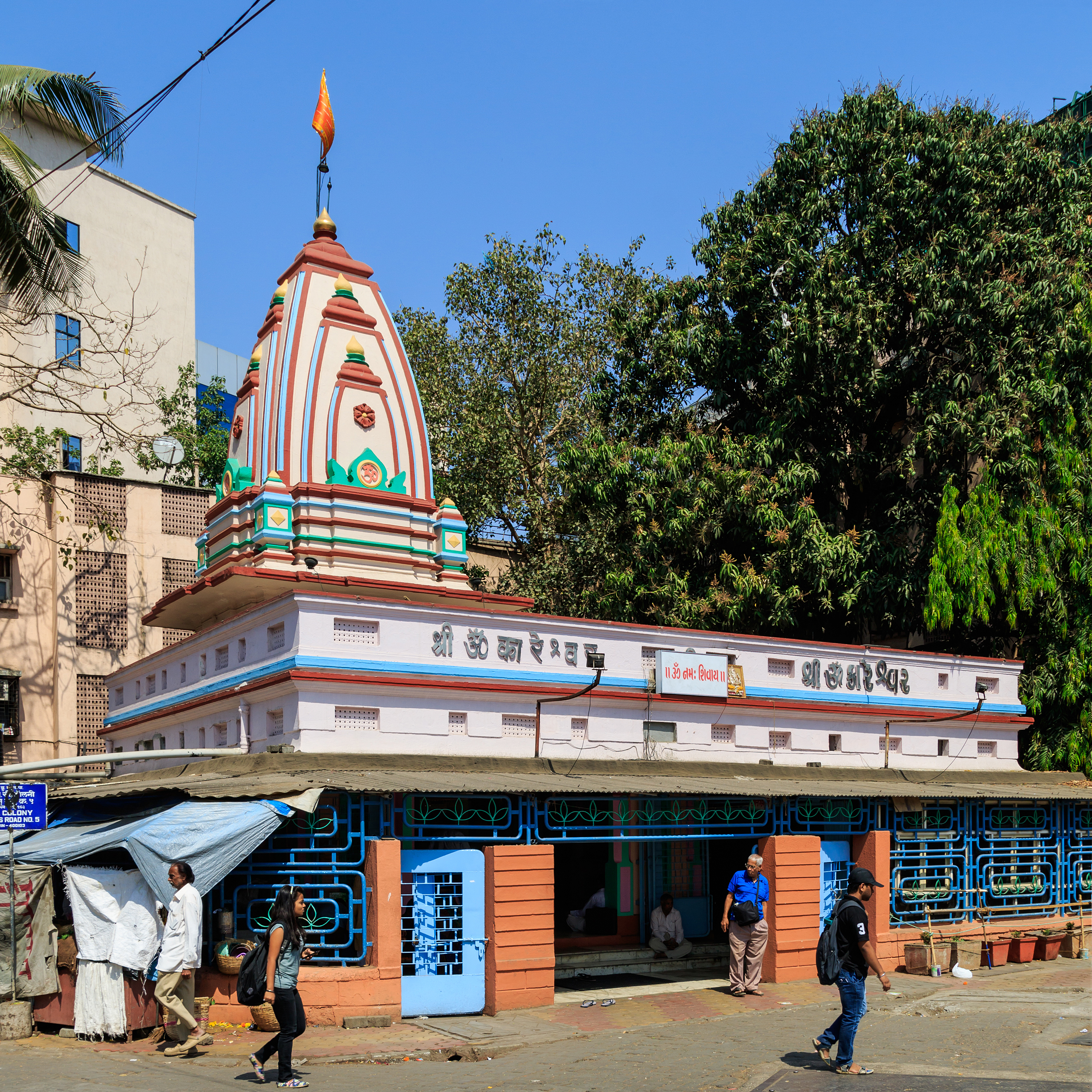 Borivali East Omkareshwar Temple in Mumbai, India